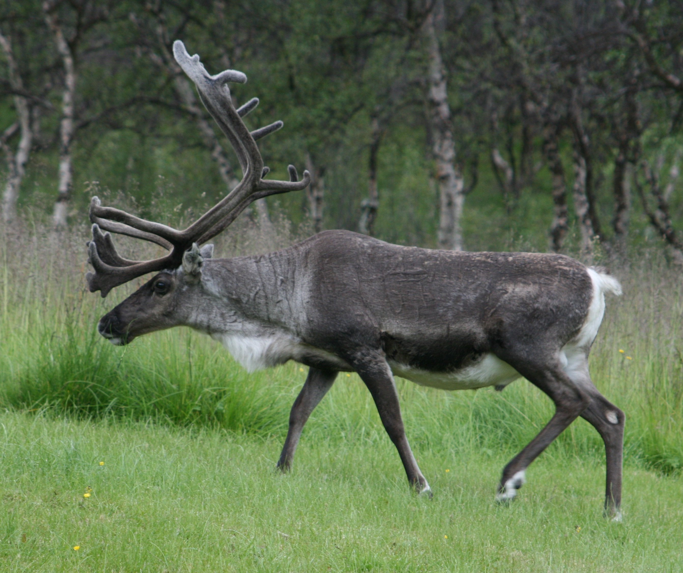 crop of file in file name